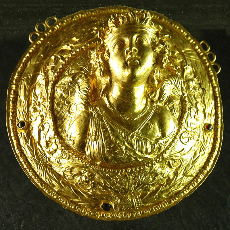 Medallion with Eros, hair ornament, second half of the 3rd century BC, hellenised Orient. Musée du Louvre, Paris.